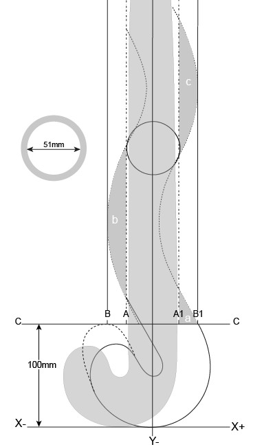 Diagram to illustrate permitted deviation to the handle edges of a hockey stick